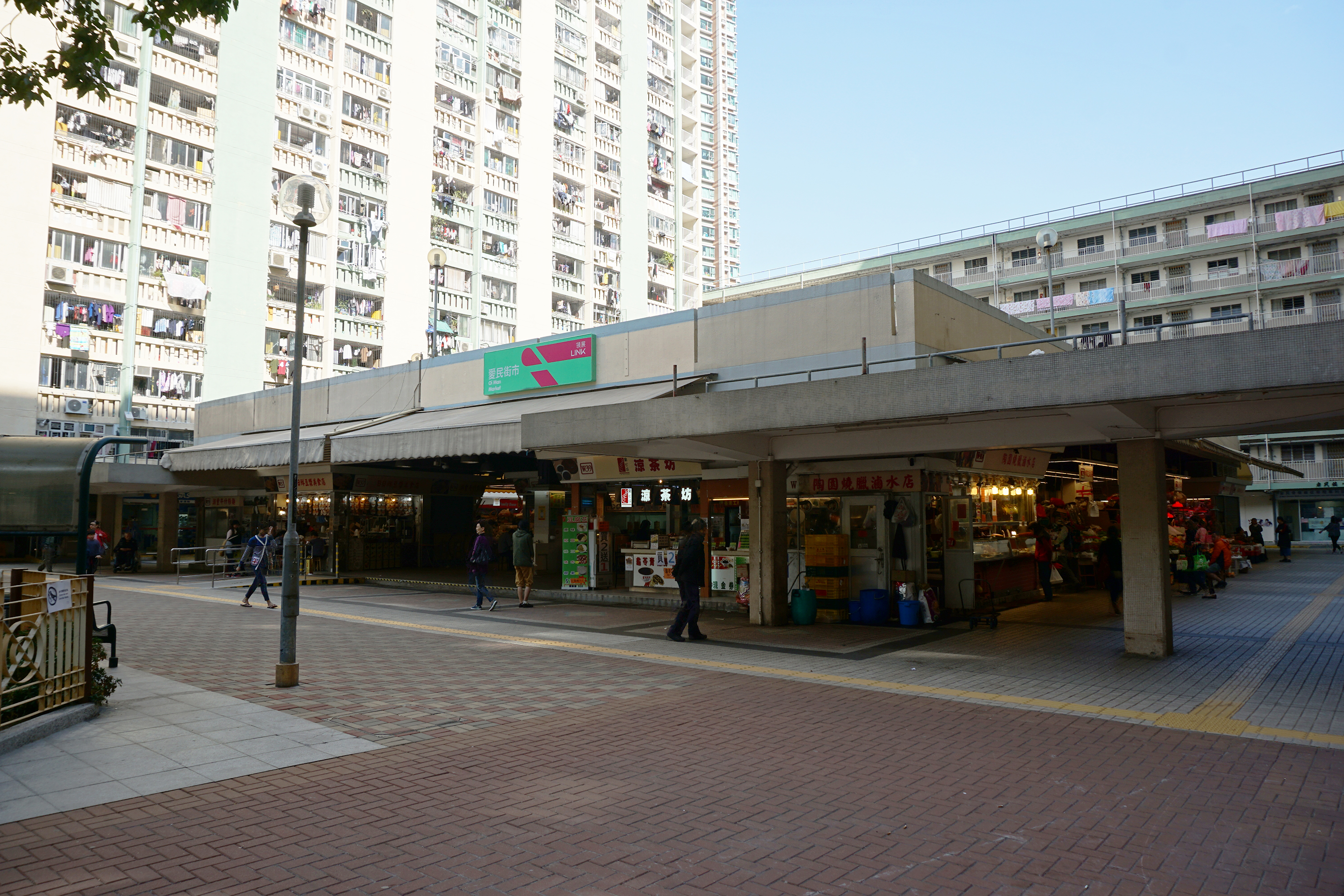 Oi Man Market in Ho Man Tin, Hong Kong.